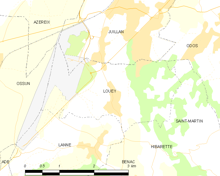 Map of French municipality